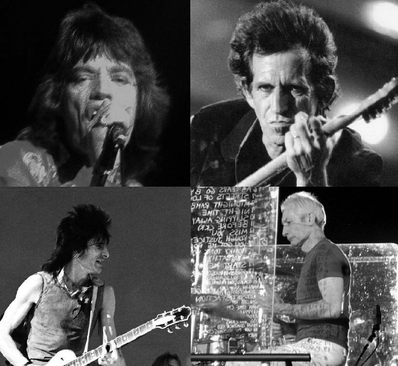 Mick Jagger, Keith Richards, Ronnie Wood and Charlie Watts montage/crop of 4 pictures - File:Jagger-early Stones.jpg, File:KeithR2.JPG, File:Ron-Wood in CA.jpg and File:Charlie Watts Hannover 19-07-2006.jpg